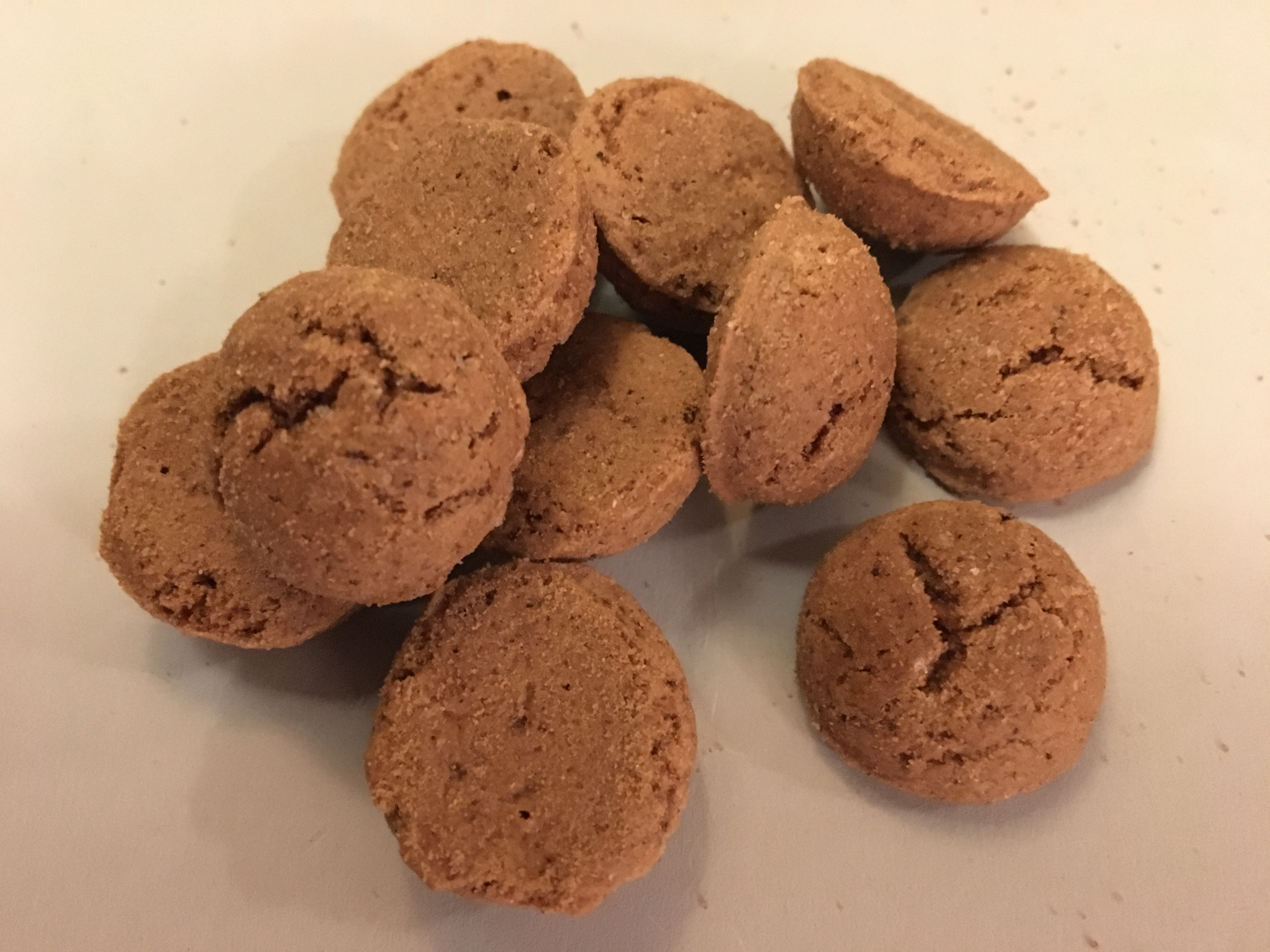 Knapperige kruidnoten AH